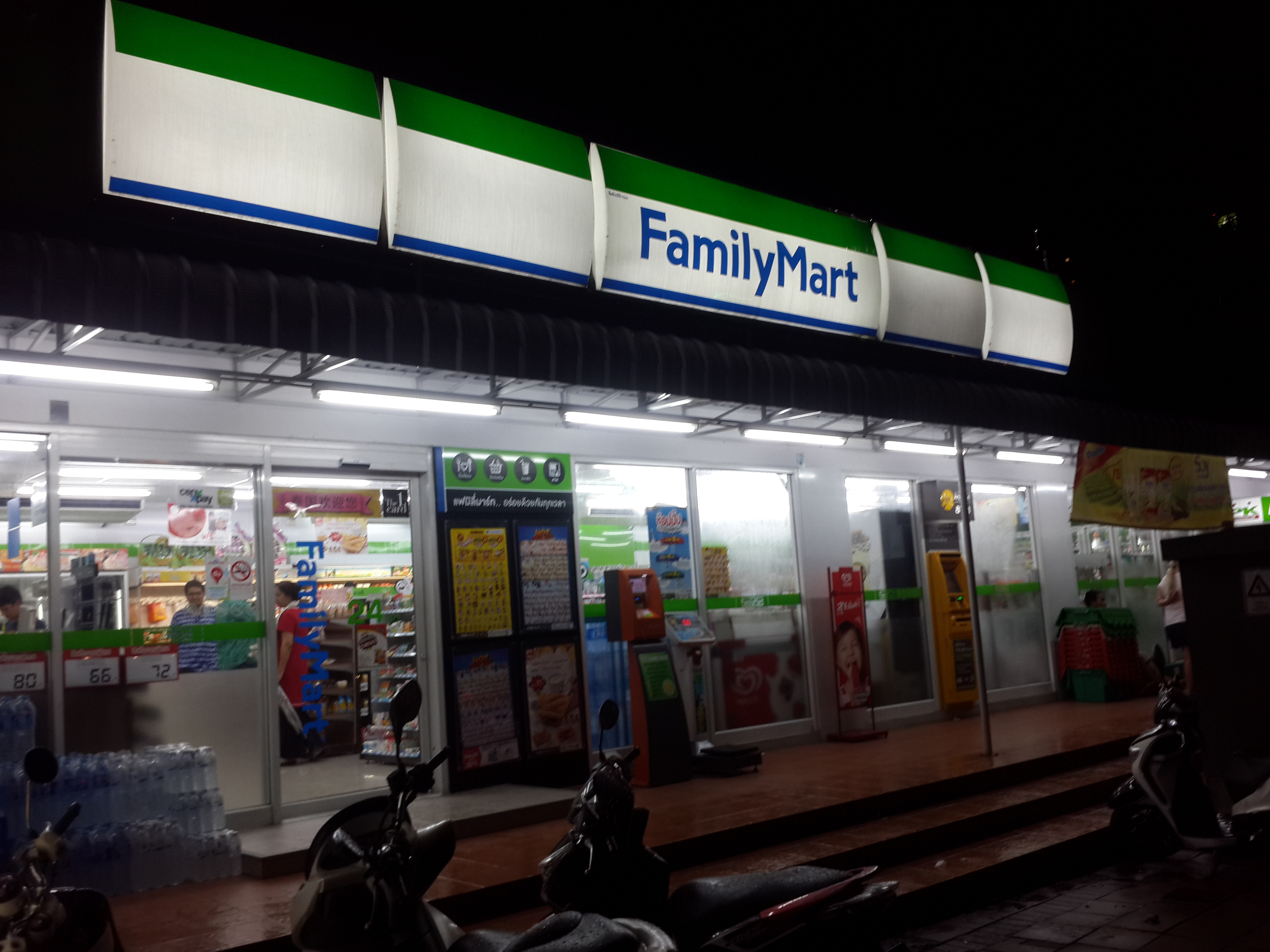 A FamilyMart store at Beach Road, Pattaya in Thailand